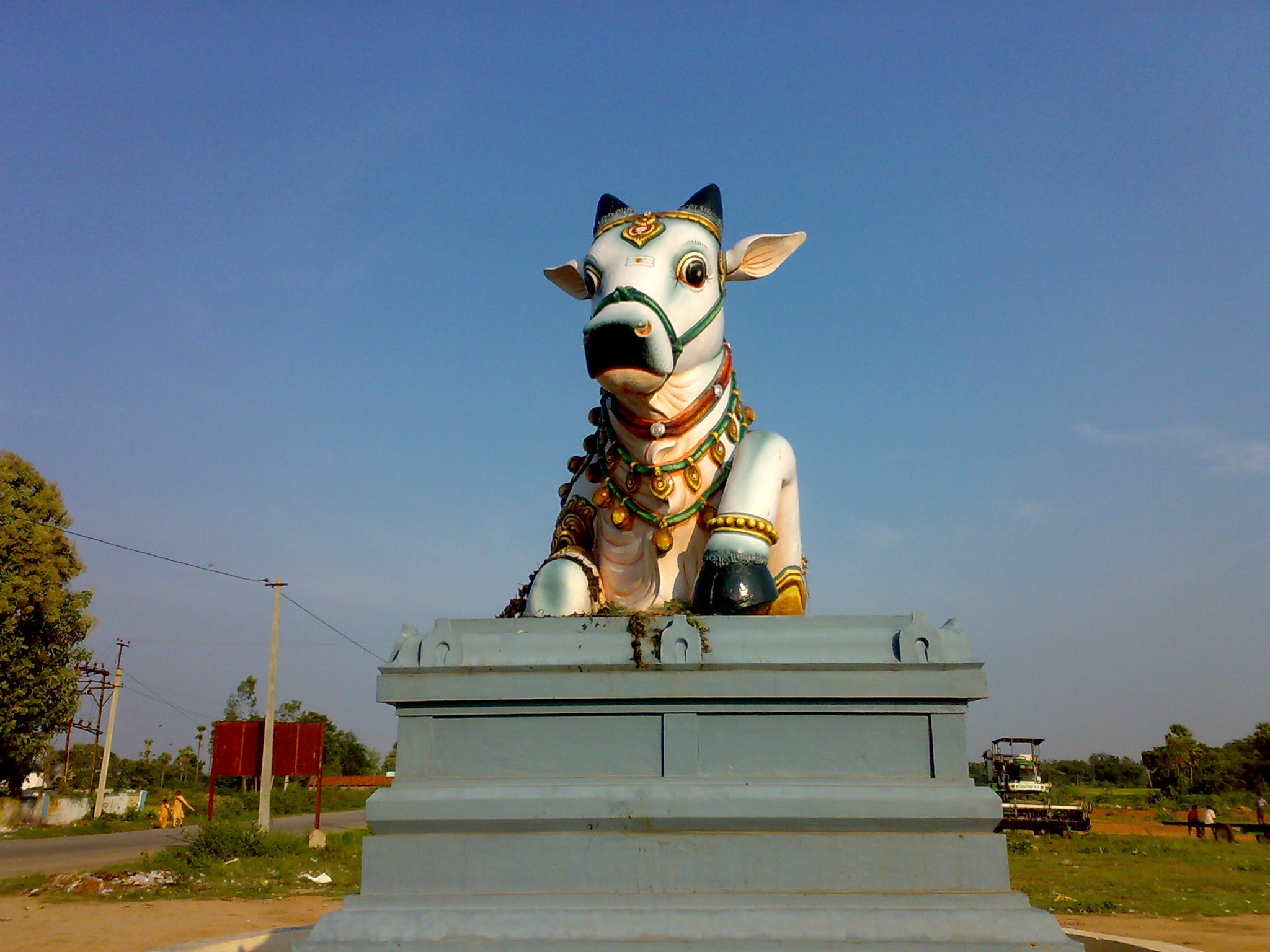 Nandi Infront of Pallikondeswara Temple, Surutupalli, Chittoor district, Andhra Pradesh, India.